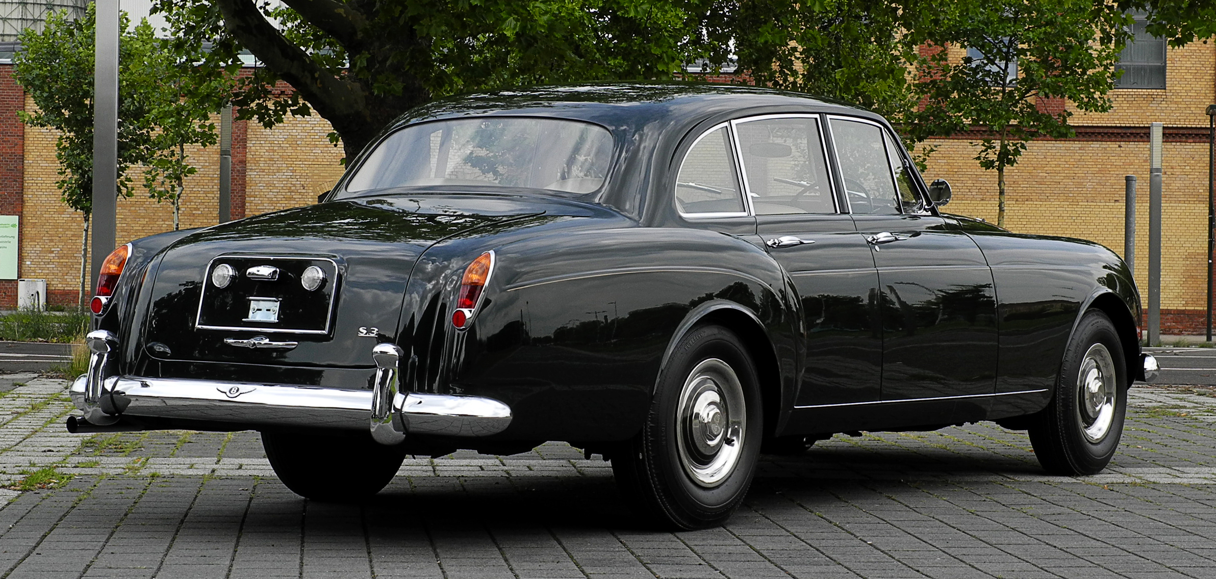 Bentley S3 Continental Flying Spur by HJ Mulliner